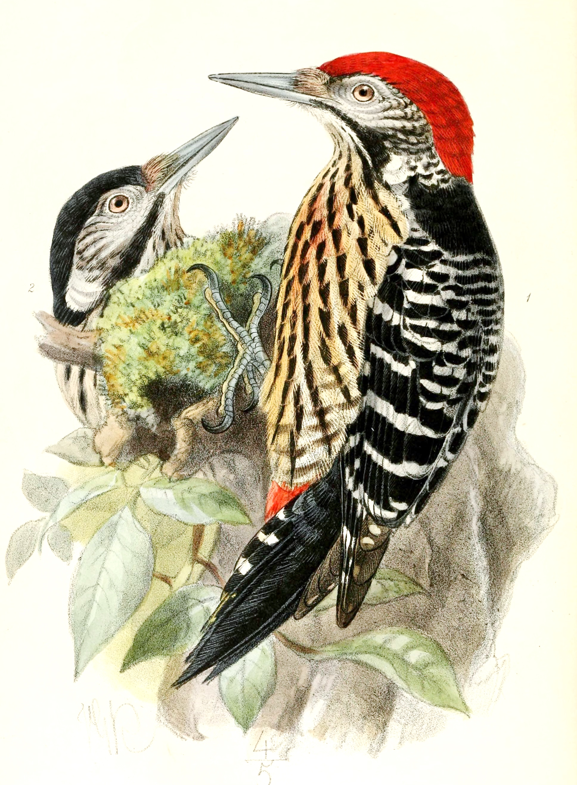 « Picus atratus » = Dendrocopos atratus (Stripe-breasted Woodpecker)